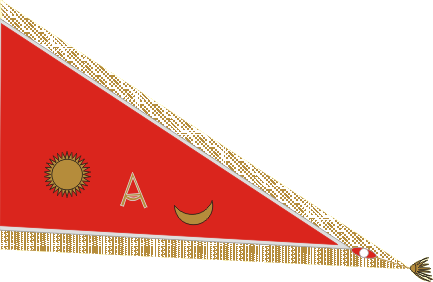 Mewar, bandera d'estat